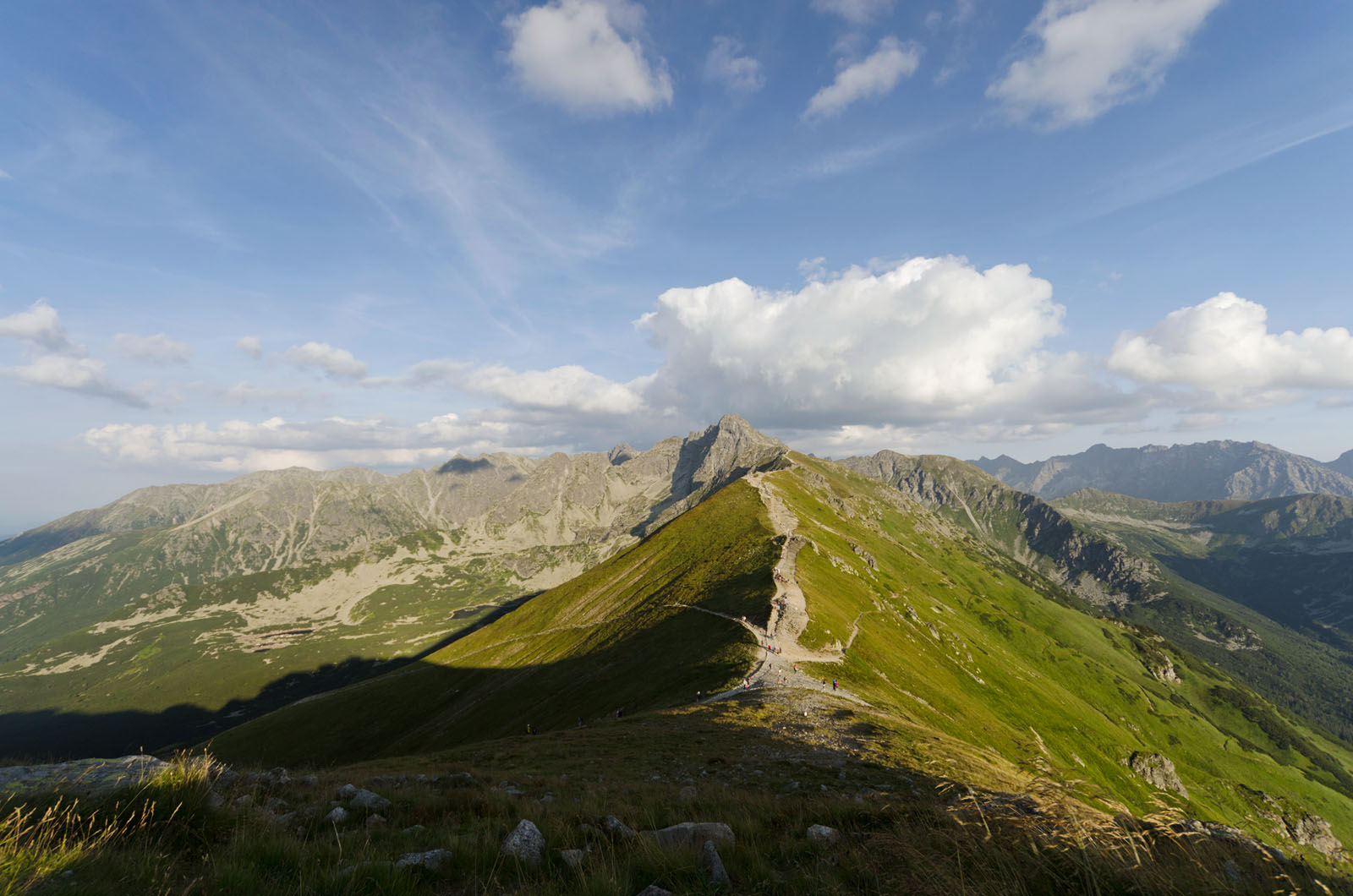 High Tatras view from Kasprowy Wierch peak in Zakopane